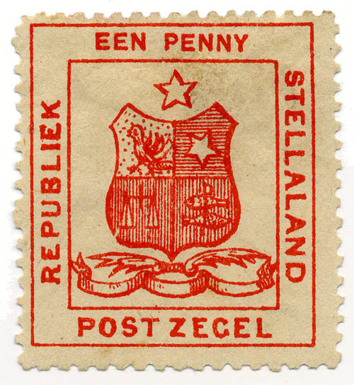 Scan of Stellaland 1-penny stamp